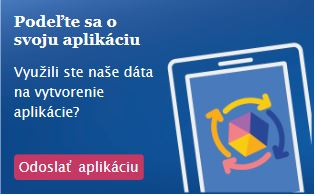 Screenshot from EUODP